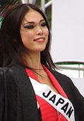 Riyo Mori, in the national costume competing at Miss Universe 2007